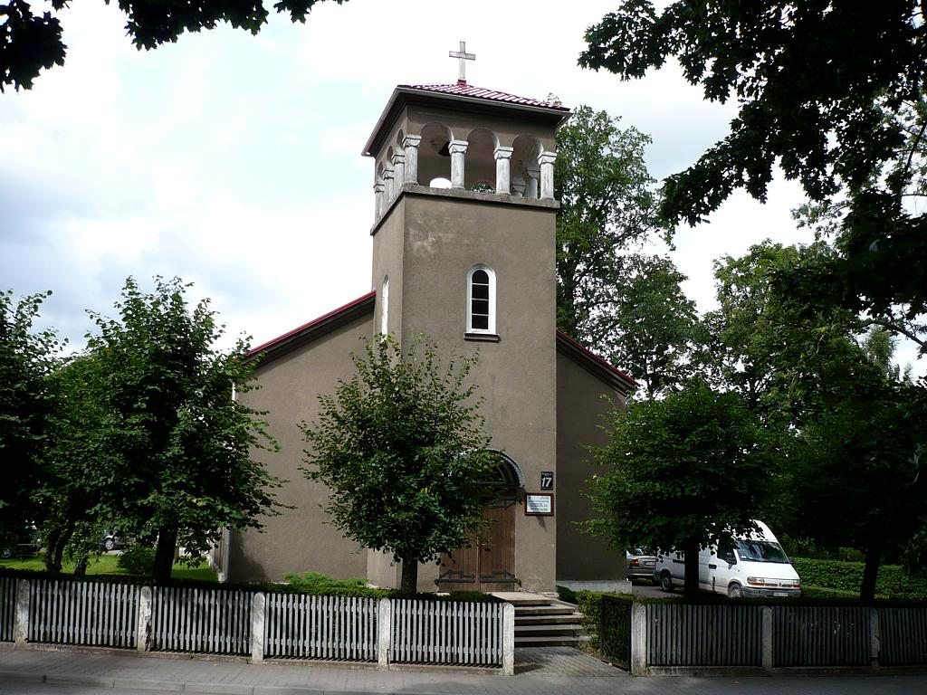 Aizpute Baptist Church